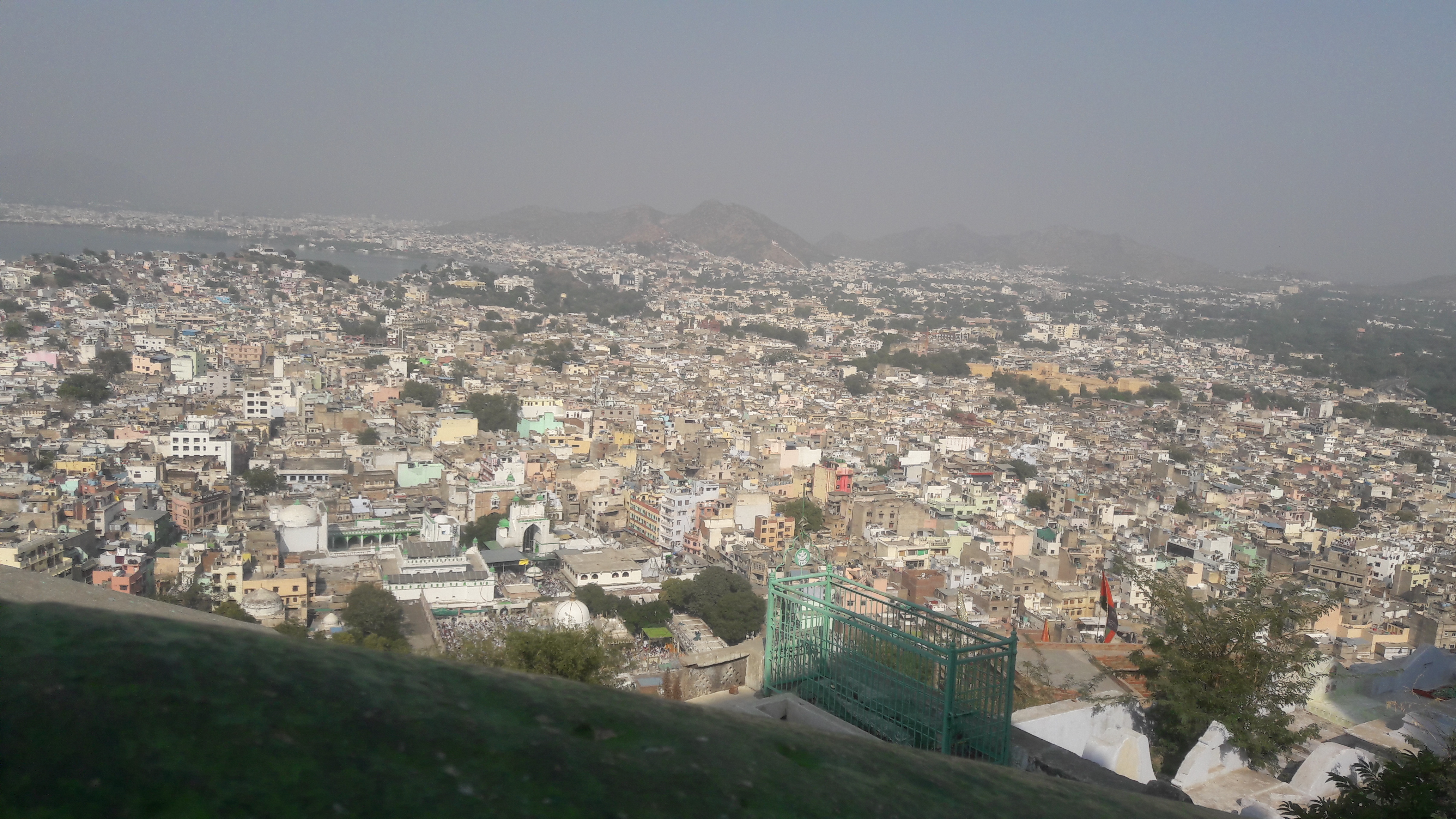 Ajmer